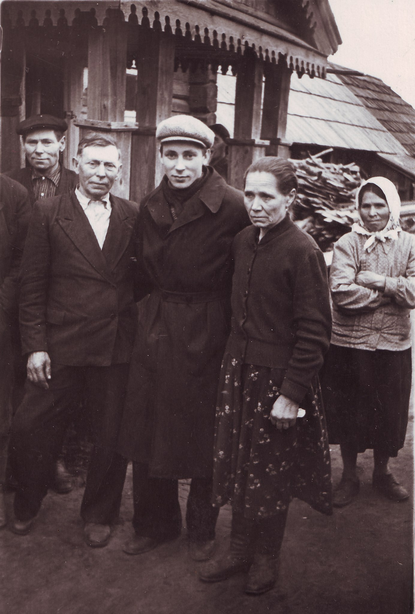 Moment of life in Soviet Union